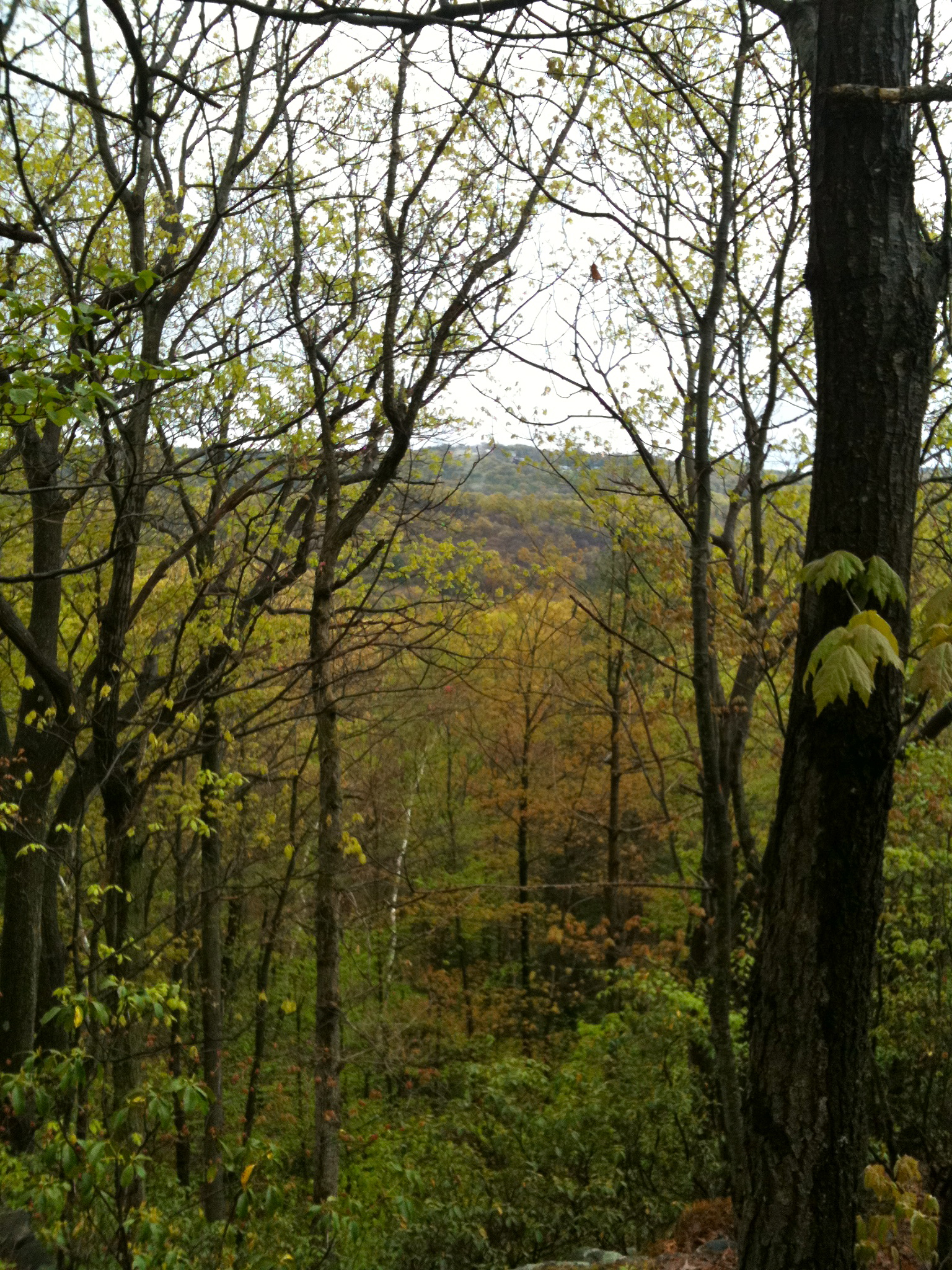 Whitestone Cliffs Trail. Blue-Blazed CFPA "loop" foot path in Mattatuck State Forest. Whitestone Cliffs Trail. Blue-Blazed CFPA "loop" foot path in Mattatuck State Forest. Whitestone Cliffs Trail view from high point view.